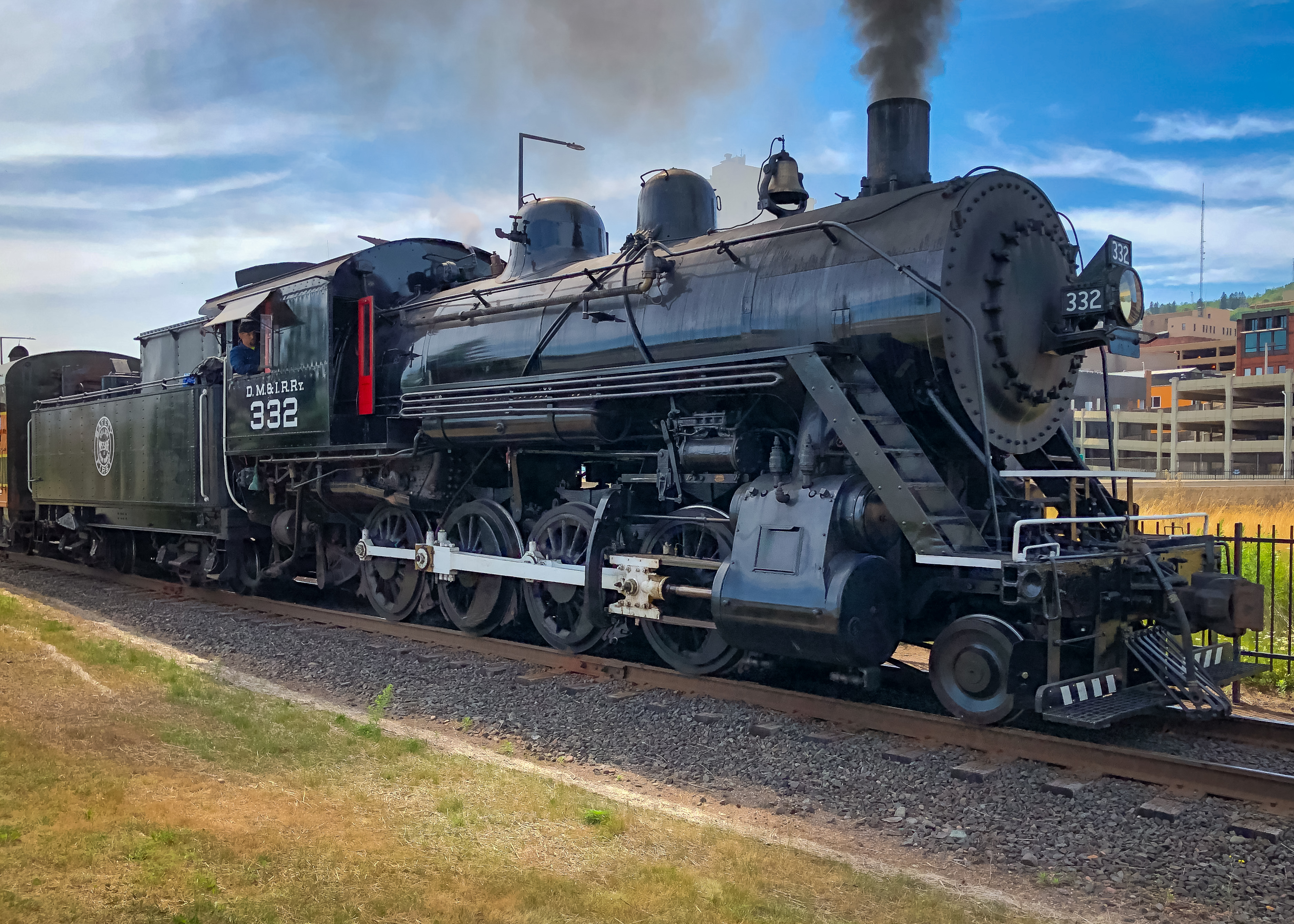 Roster shot of a steam locomotive in operation.